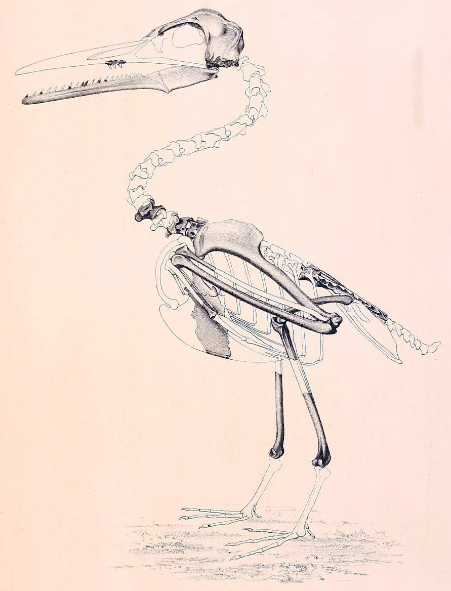 Ichthyornis dispar specimen YPM 1450 skeletal restoration. Odontornithes: a monograph on the extinct toothed birds of North America;. Washington :Govt. print. off.,1880..